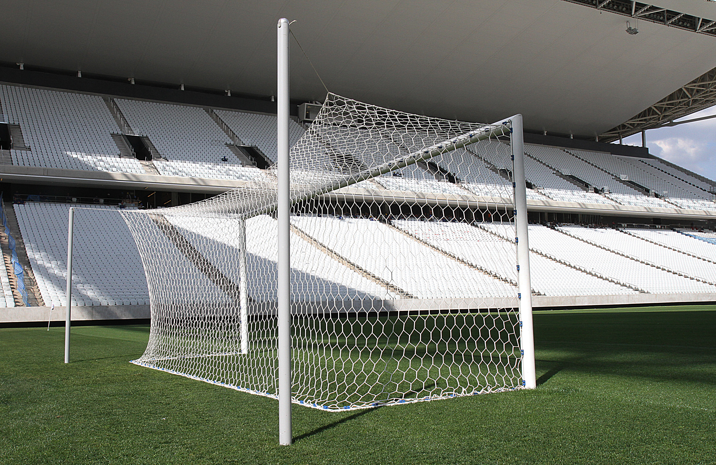 East Side of Arena Corinthians